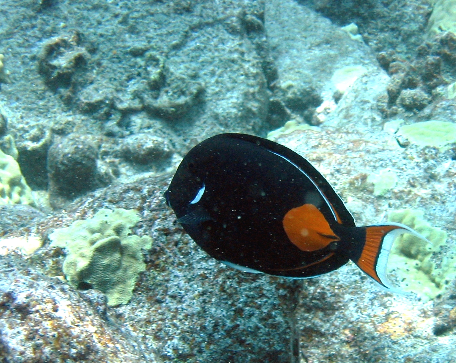 Achilles tang (Acanthurus achilles). The Hawaiian name is paku'iku'i. Northwest Hawaiian Islands.